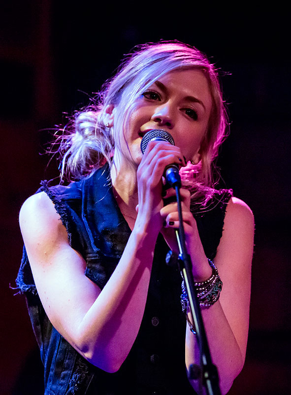 Emily Kinney photo by Sachyn Mital. Performance at Rockwood Music Hall in NYC on 13 February 2014.